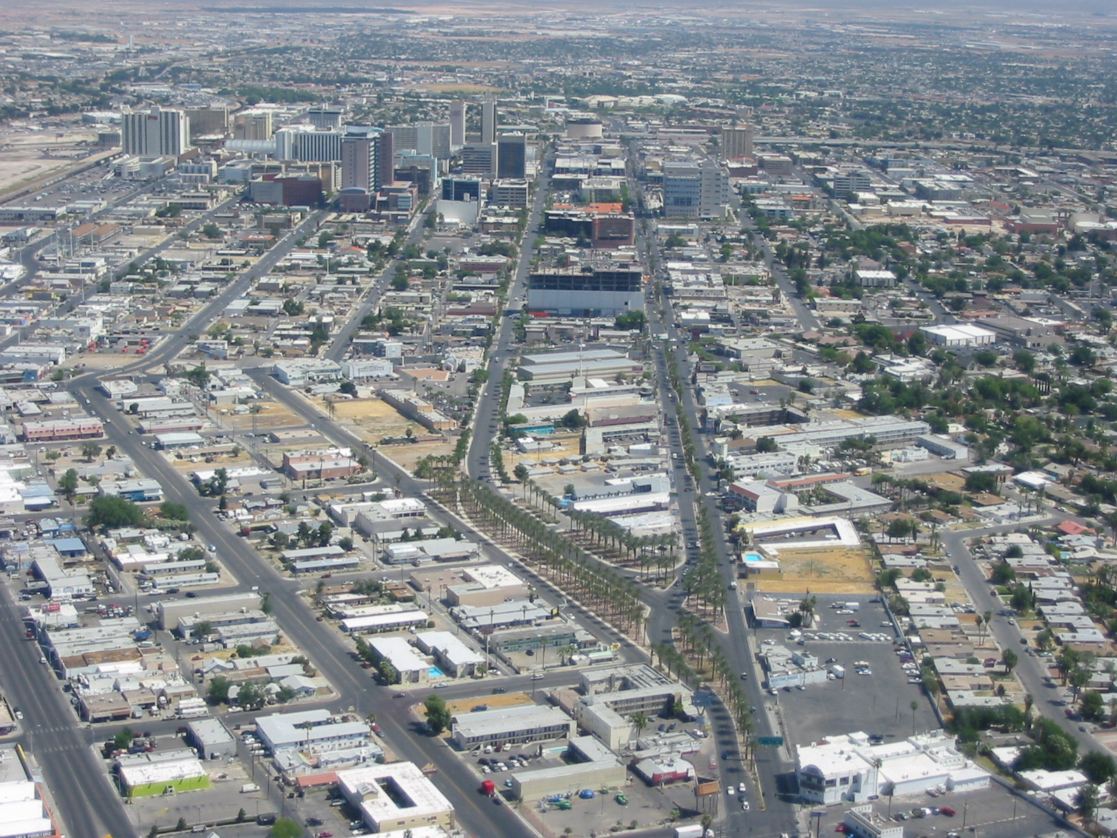 Stratosphere Hotel, Las Vegas, view from the top